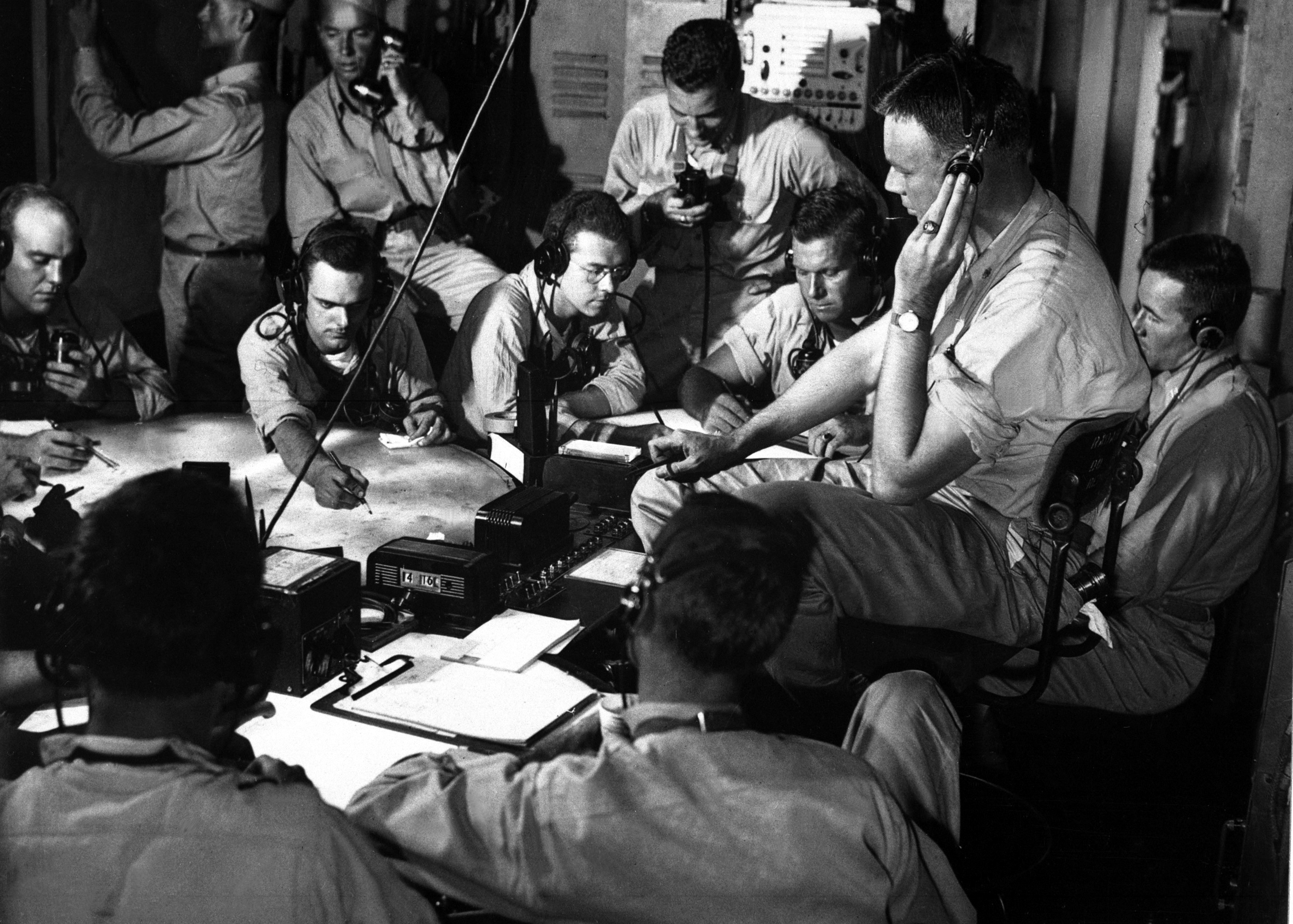 Chart room on board USS Lexington (CV-16) as the ship maneuvers into enemy waters during a strike on the Gilbert and Marshall Islands. December 1943. ID: HD-SN-99-02628